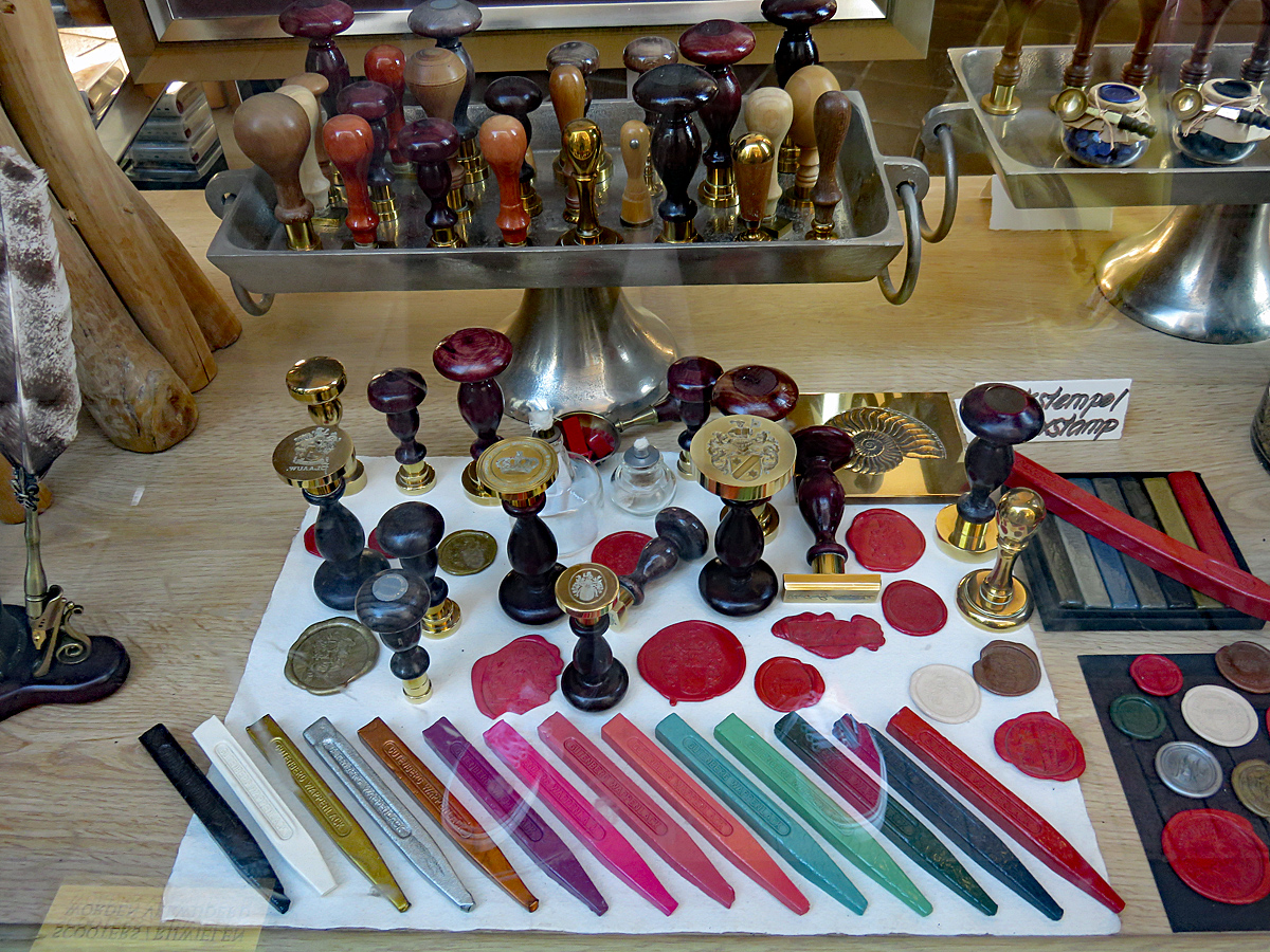 Present-day signets and sealing wax, displayed in the shop window of Posthumus in Sint Luciënsteeg in Amsterdam (2018)